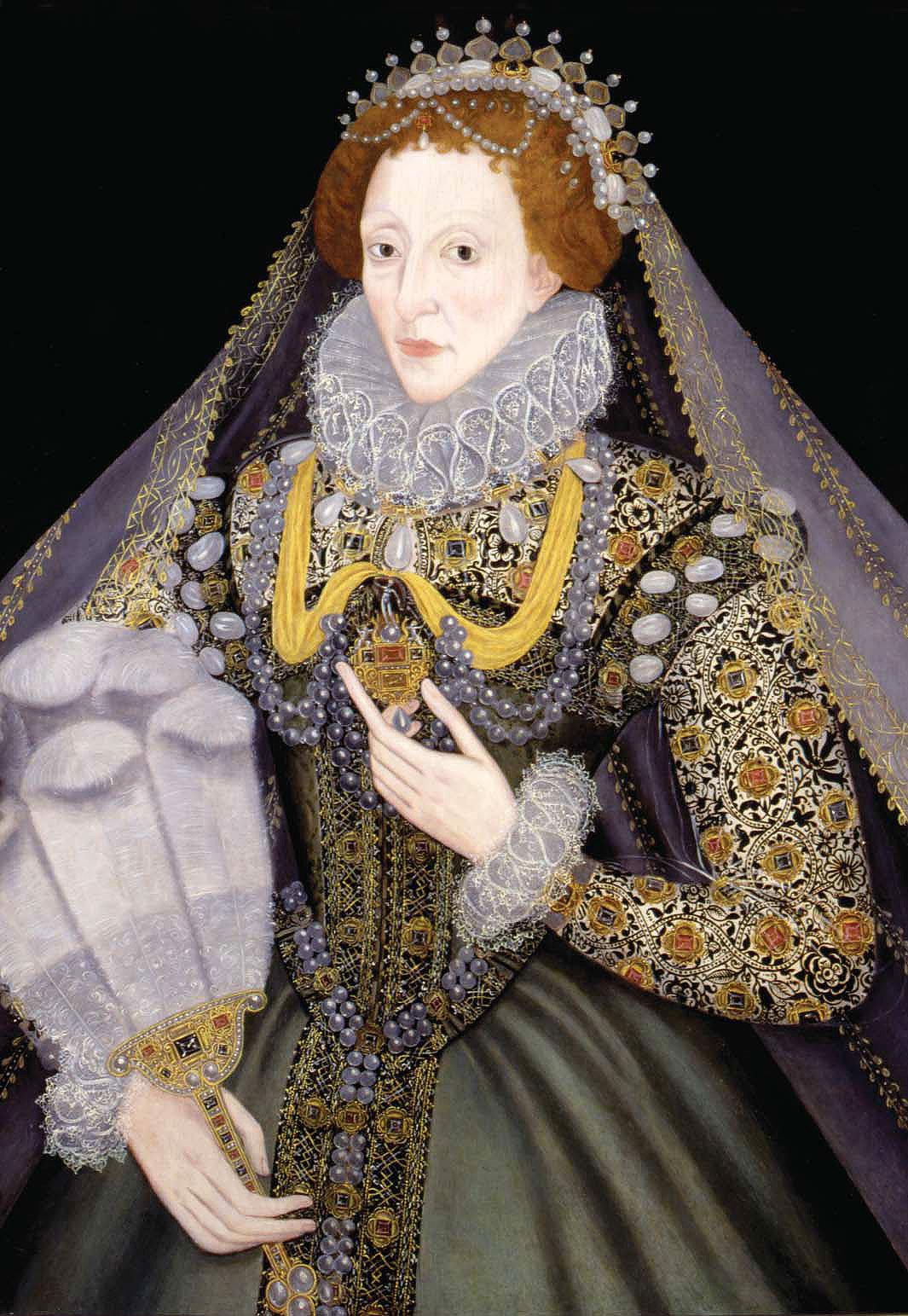 Elizabeth I of England, 1570s